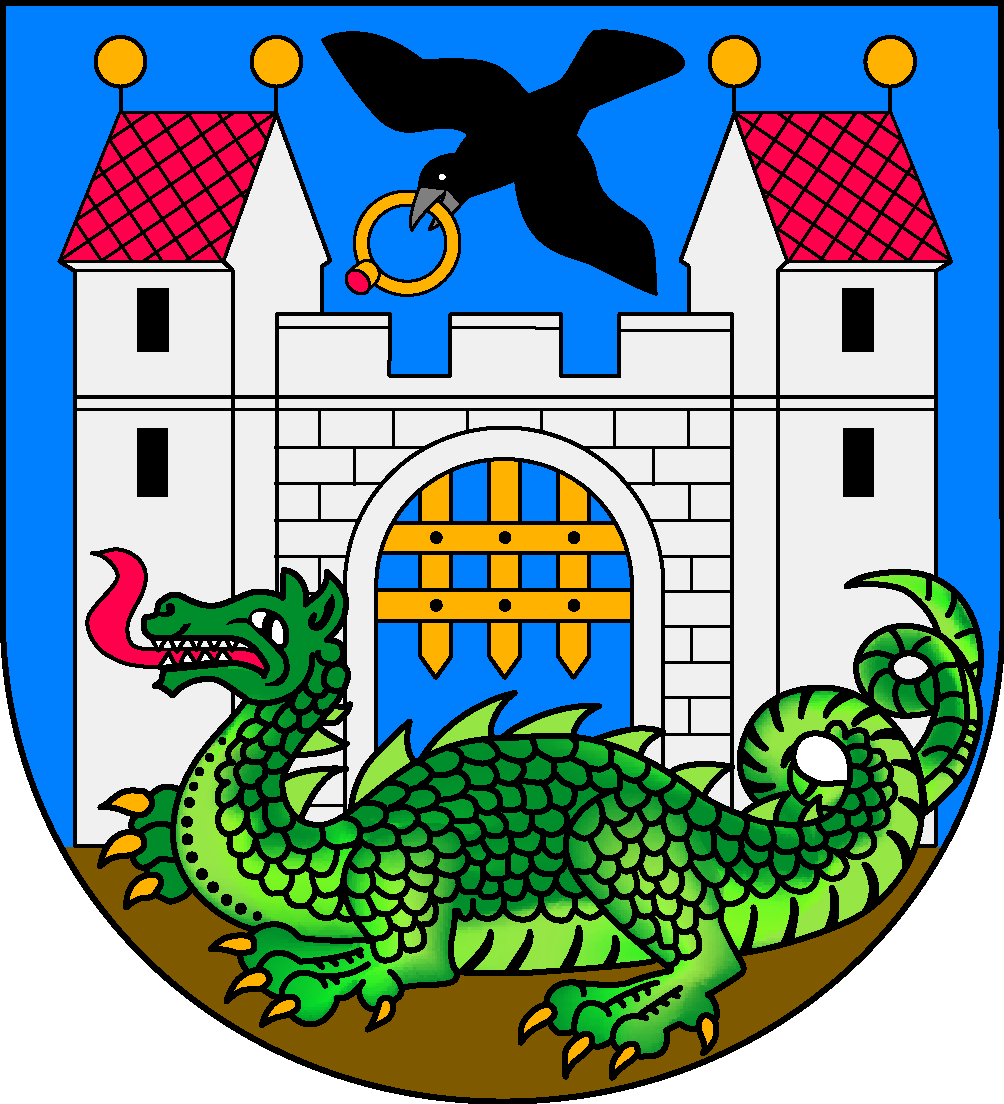 Trutnov Coat of Arms, city in the Czech Republic – modern coat of arms is without loopholes and ledge between windows.